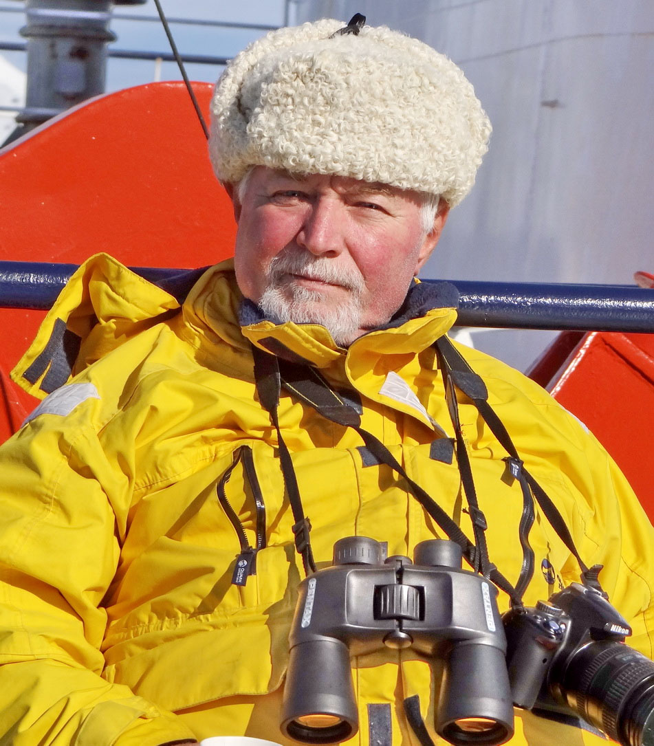 Charalampos Bizas in 2010